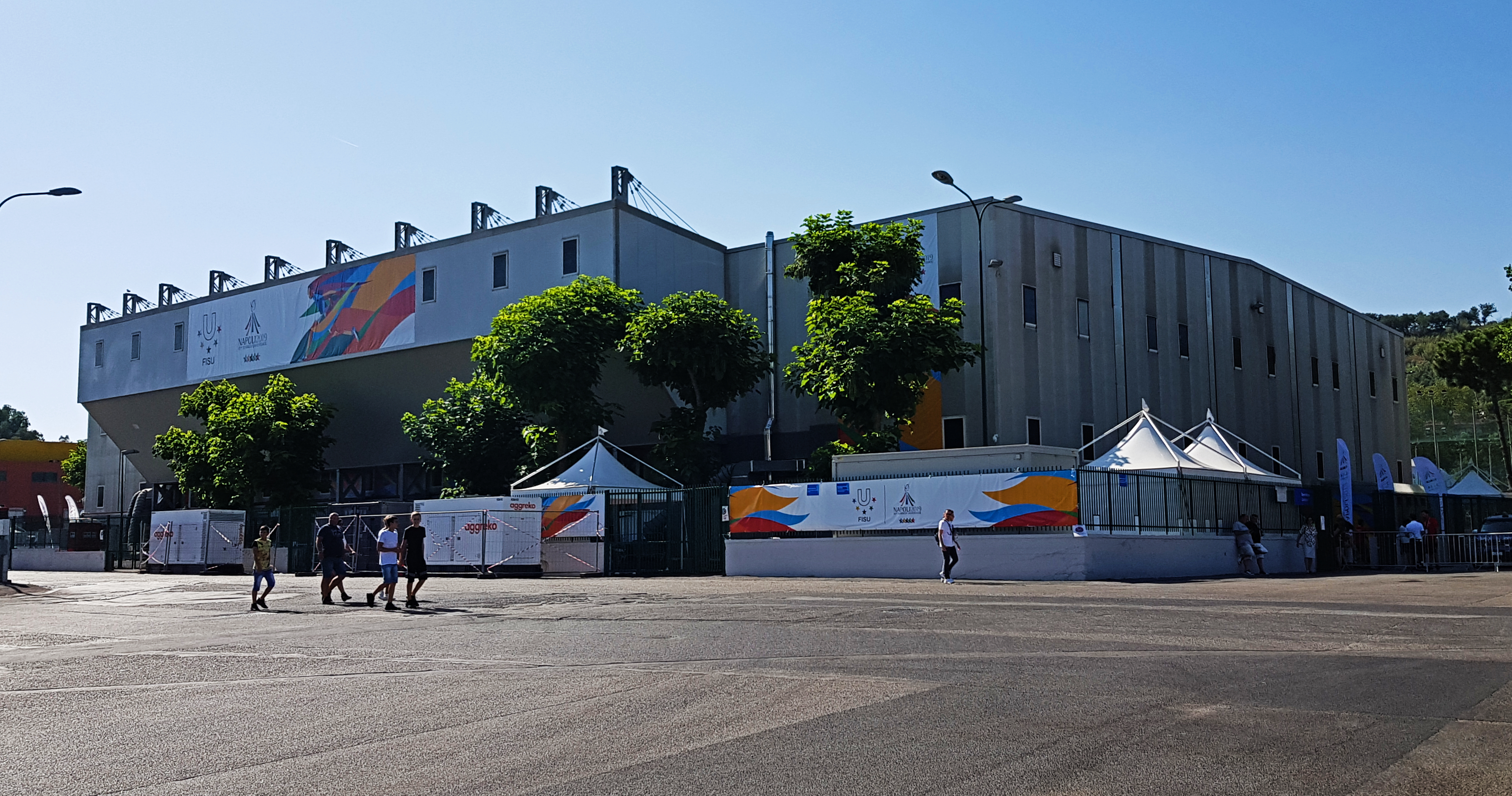 Exterior facade of PalaBarbuto indoor arena in Naples (Italy) during the 2019 Summer Universiade.